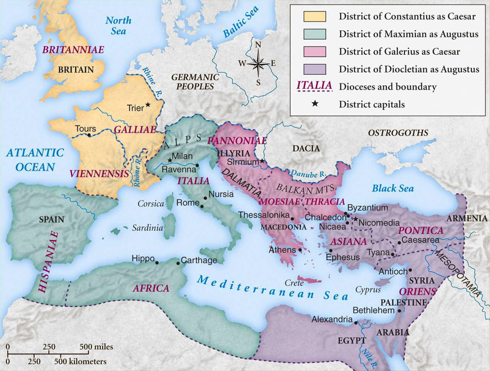 historic map of Roman Empire during the first tetrarchy